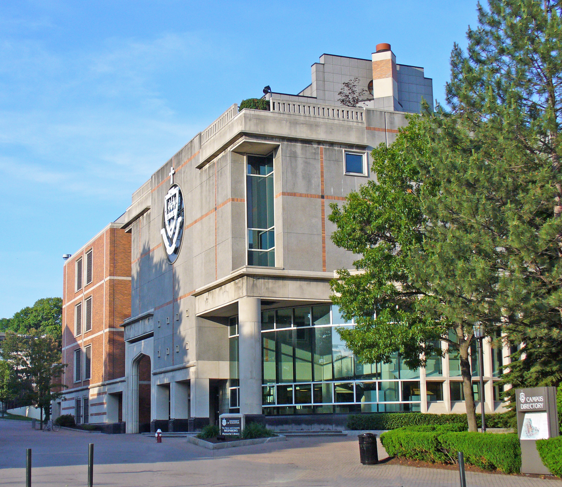 The Harry and Jeanette Weinberg Memorial Library, University of Scranton, at Scranton, Pennsylvania, United States.